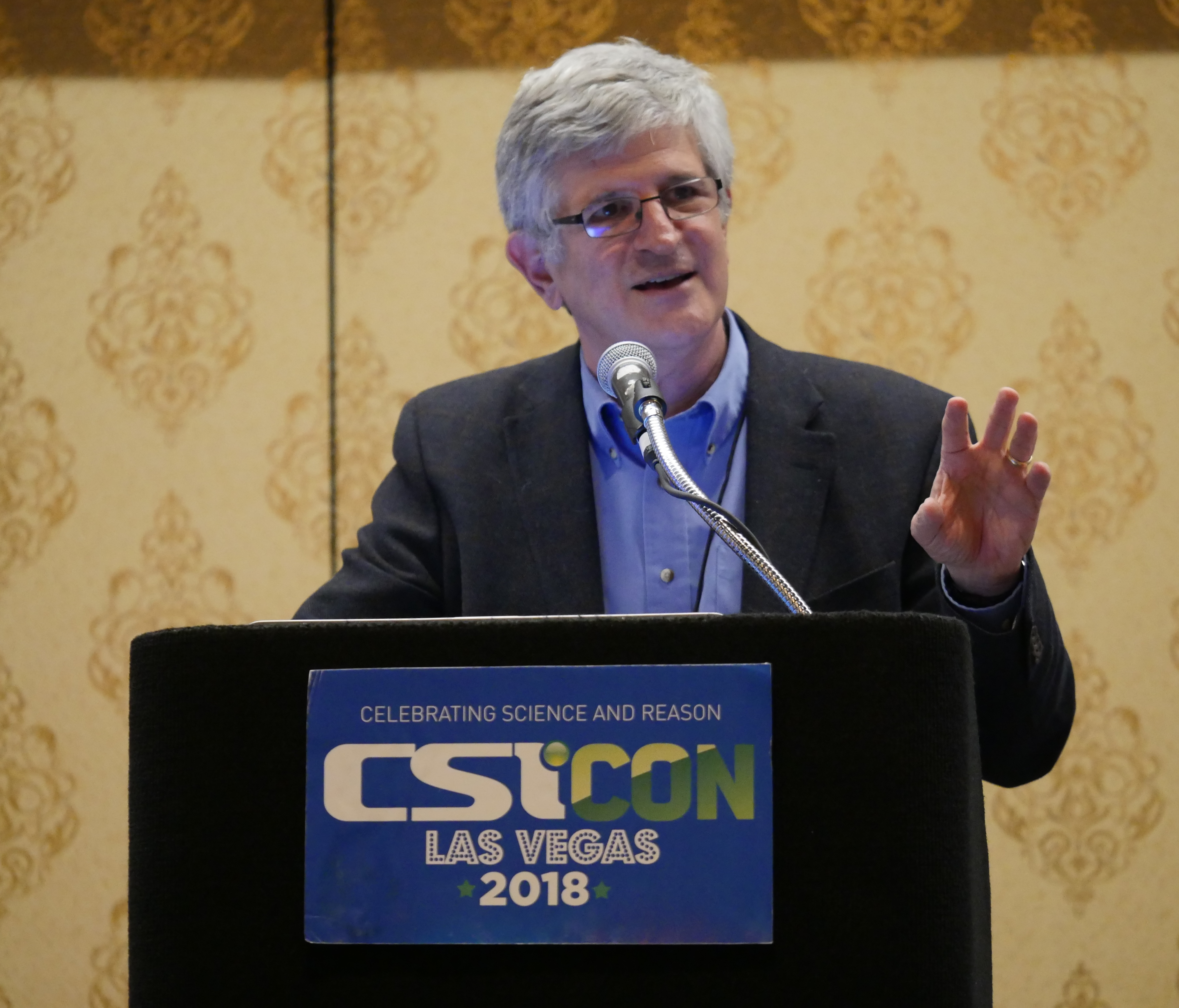 Paul Offit CSICon 2018 Communicating Vaccine Science- Adventures and Misadventures with the Media